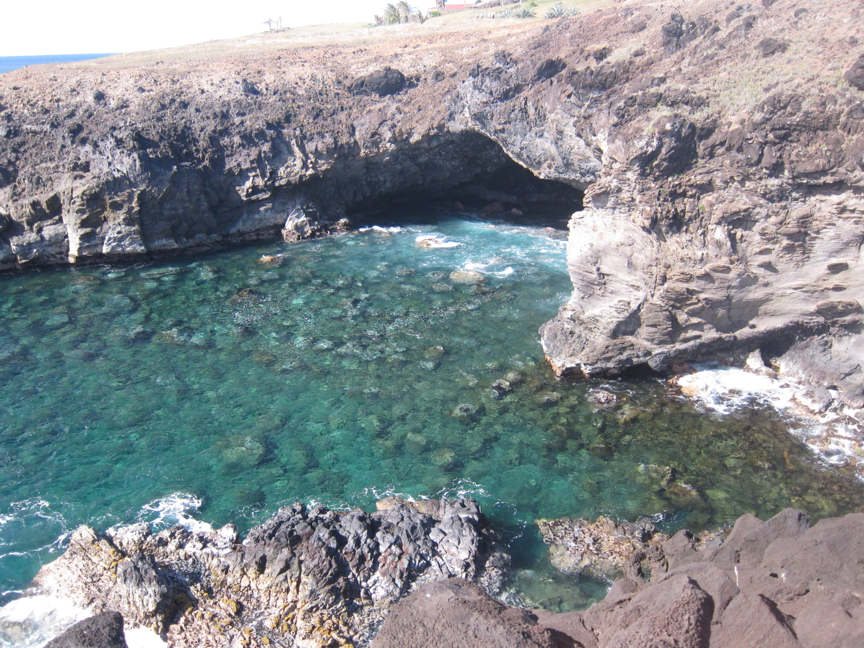 Beautiful water everywhere!